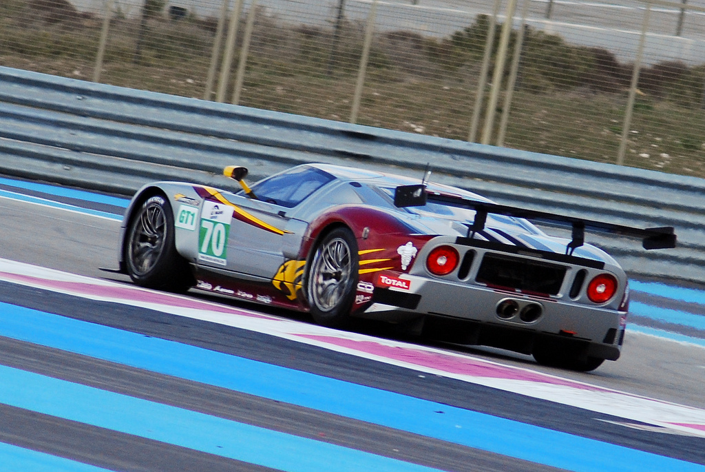 Ford GT #70 of the Marc VDS Racing Team driven by Bas Leinders, Maxime Martin and Eric De Donker